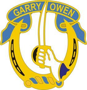 7th Cavalry Regiment Distinctive Unit Insignia